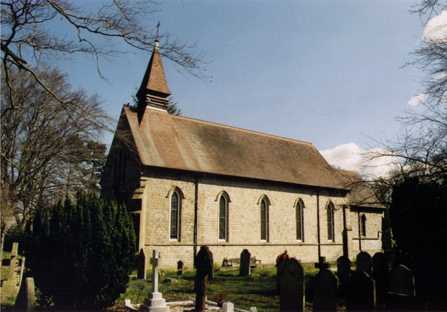 Holy Trinity parish church, West End, Surrey, seen from the southwest